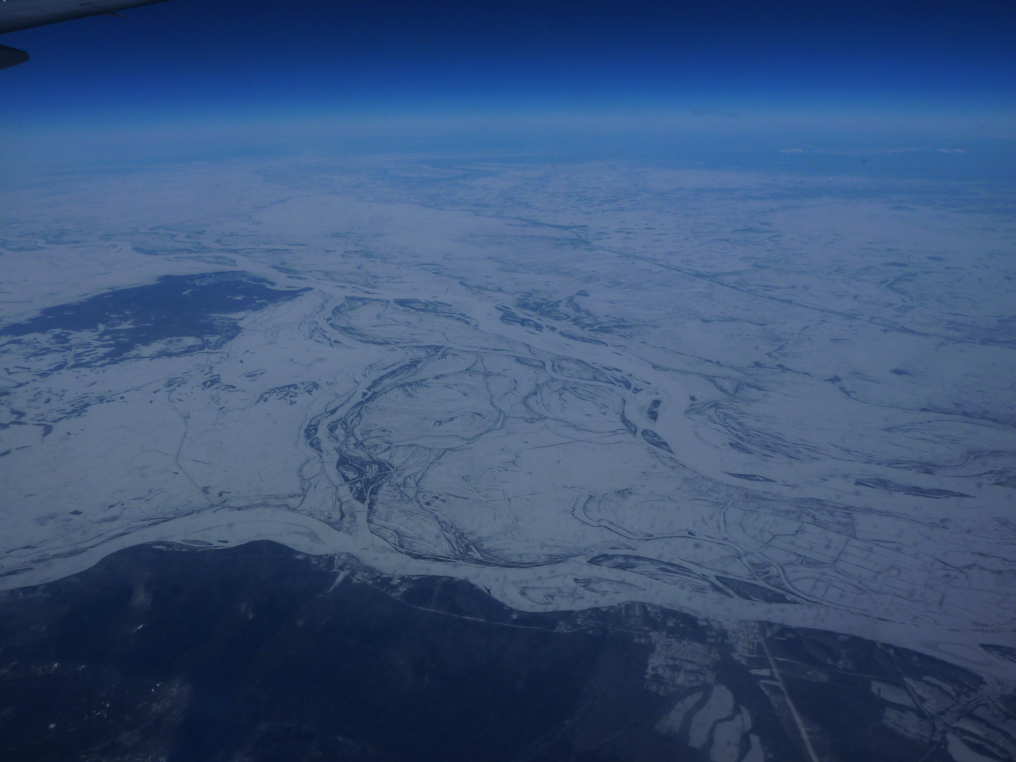 The Amur (Heilongjiang) and Ussuri (Wusuli) Rivers near their confluence. Looking roughly north-north-west. The Ussuri runs from the left to the right in the lower part of the photo; the Amur runs from the upper left to center right. Between the two big rivers are, from the left to the right, the Chinese mainland (Fuyuan County; left); the Yinlong Island (Tarabarov Island; a small island near the Amur); the Bolshoy Ussuriysky (Heixiazi) Island (runs from the center of the picture to the right edge of the frame). The new China-Russia border across the Bolshoy Ussuriysky (Heixiazi) Island runs roughly through the center of the picture. It apparently is visible on the photo as a diagonal line - I assume there is a clearing through the vegetation, and some kind of a road for the border patrol to walk on.